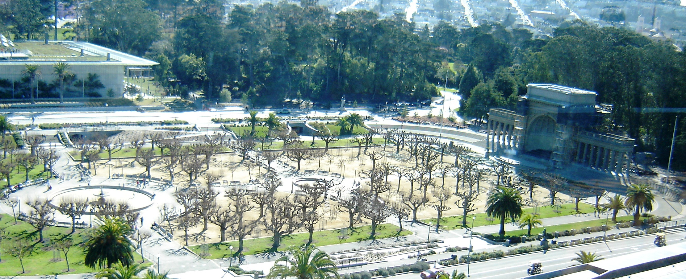 Music Concourse in Golden Gate Park, with Spreckels Temple of Music on the right